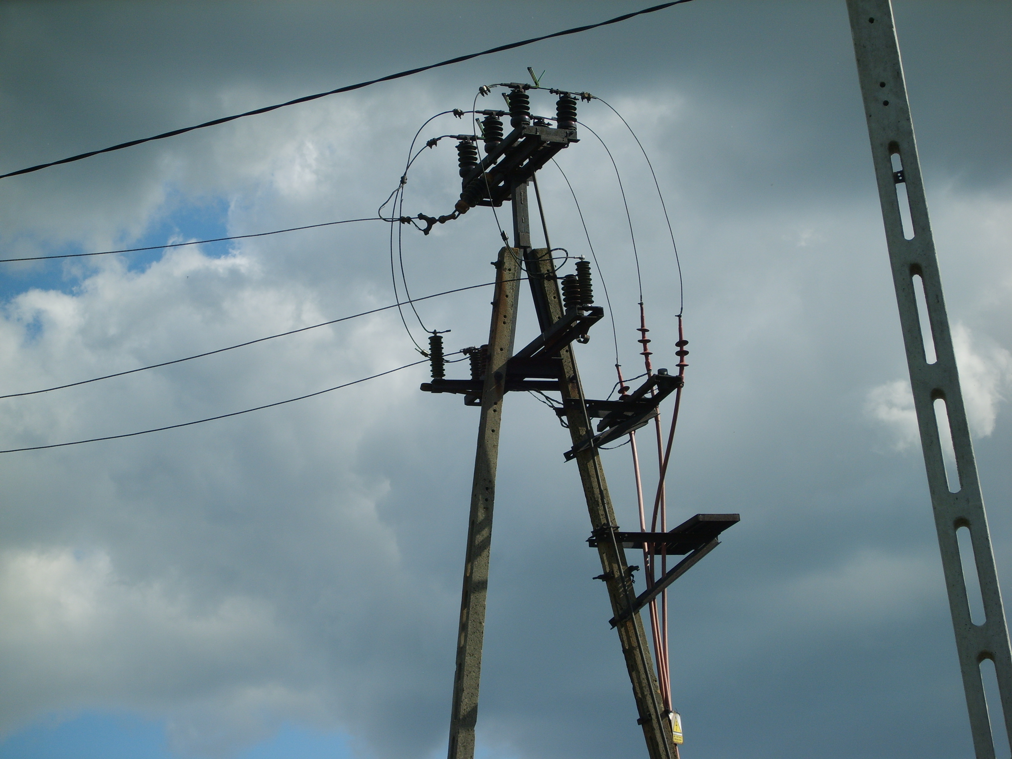 Electricity pole